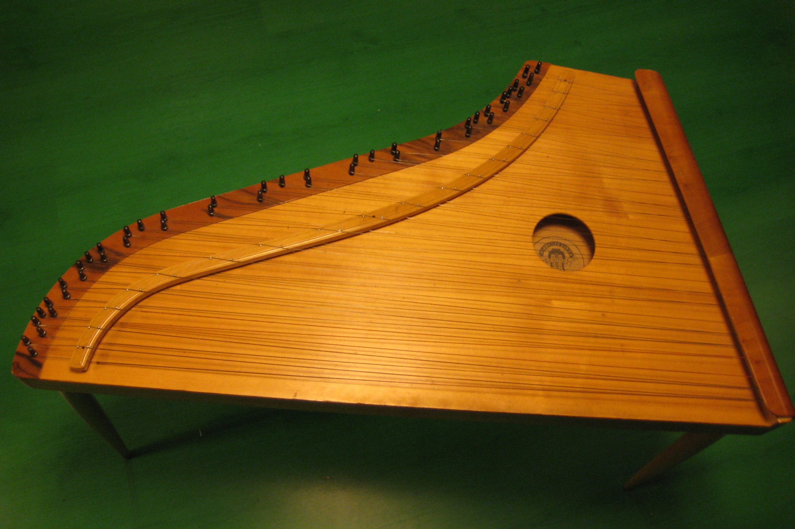 Estonian plucked chromatic musical instrument "kromaatiline kannel" designed by Väino Maala in 1952. The instrument depicted is made in Tallinna Klaverivabrik ('Tallinn Piano Factory') in 1988.